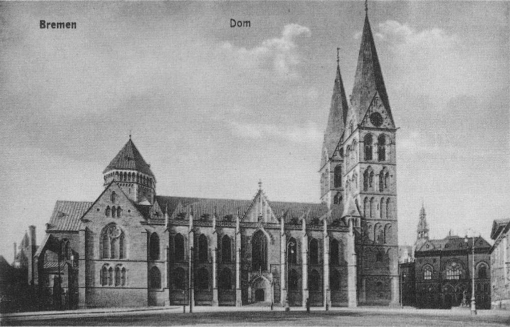 Northern façade of Bremen Cathedral short after the restoration of 1888–1901, photo possibly taken between the demolishment of the cathedral's orphanage and the construction of Bremer Bank building in 1902. Still the choir has no middling flying-buttress.